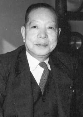 Image of Japanese politican Banboku Ono (大野伴睦, 1890–1964) during his Parliament session when the Taisei Yokusankai was established.